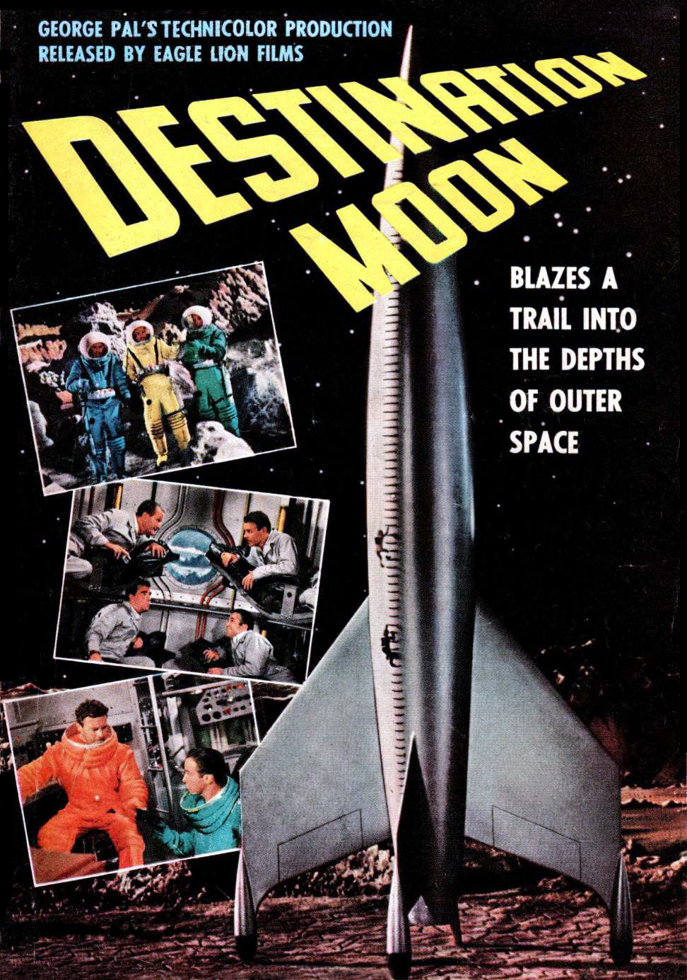 Front cover of Fawcett Comics's adaptation of Destination Moon with trademark notices removed.